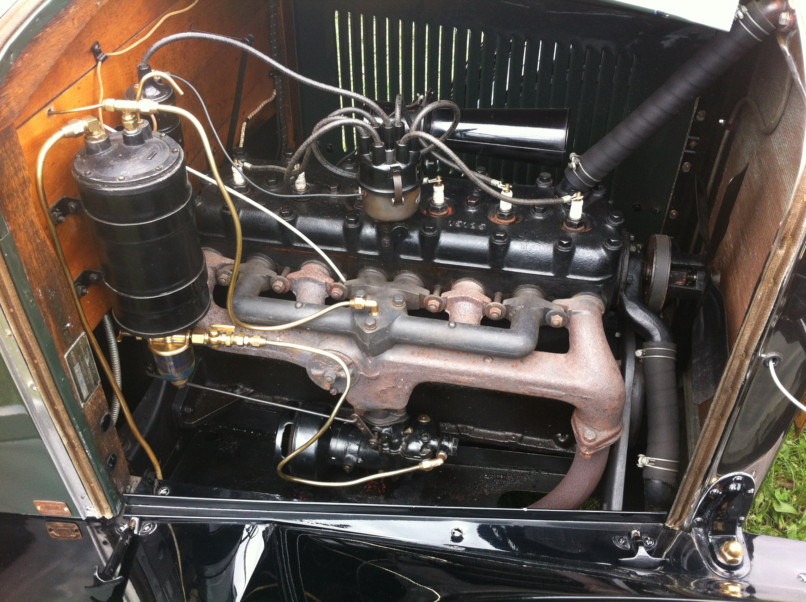 Engine of a 1926 Ajax, a 4-door sedan built by Nash. Picture taken at the 2014 Gettysburg AACA meet held near York Springs, Pennsylvania.